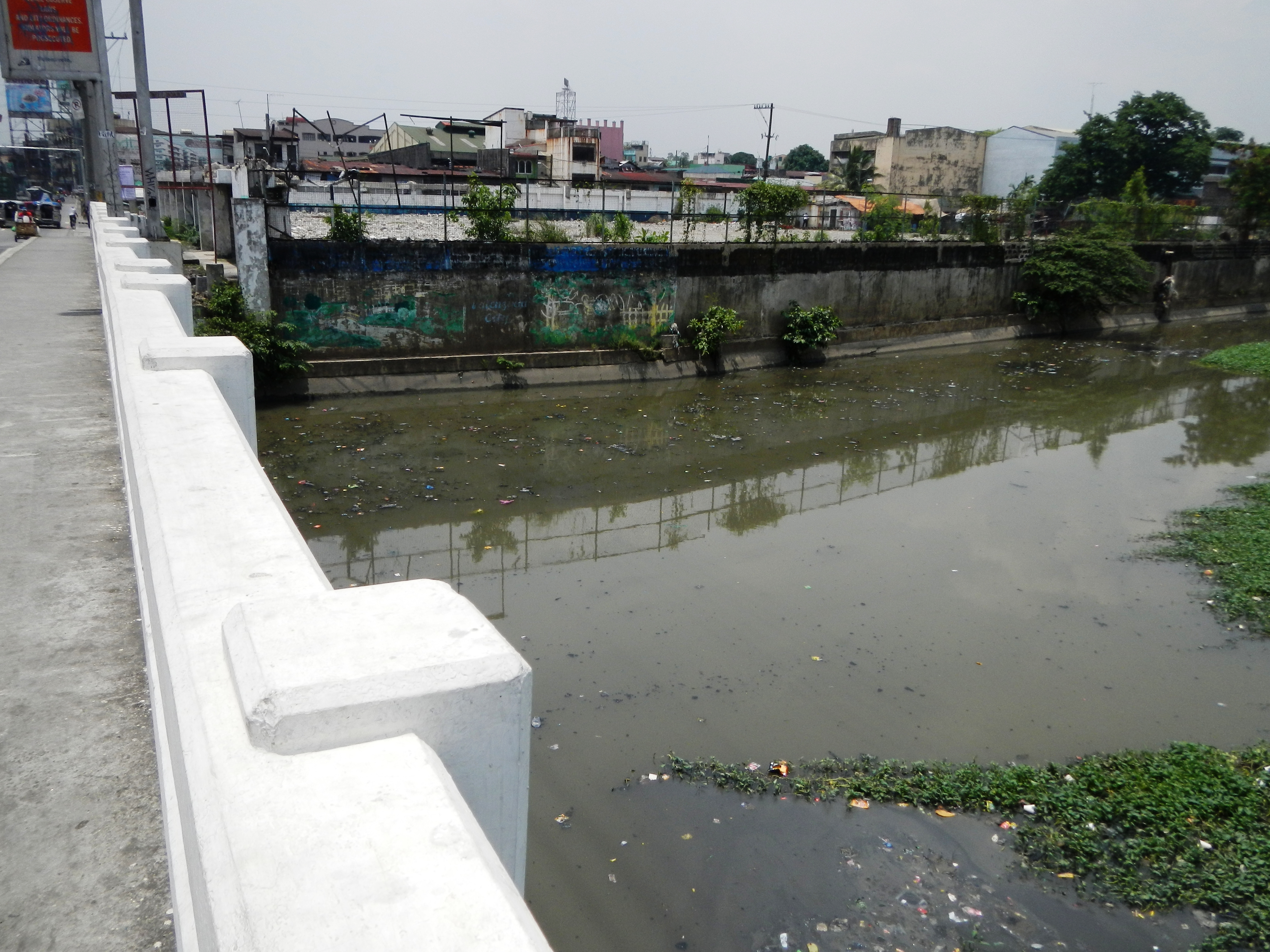 Tullahan Bridge Barangay Marulas, Valenzuela-Malabon City (in Barangay Potrero, boundary MacArthur Highway Valenzuela, PhilippinesTullahan River, List of rivers and esteros in Manila).